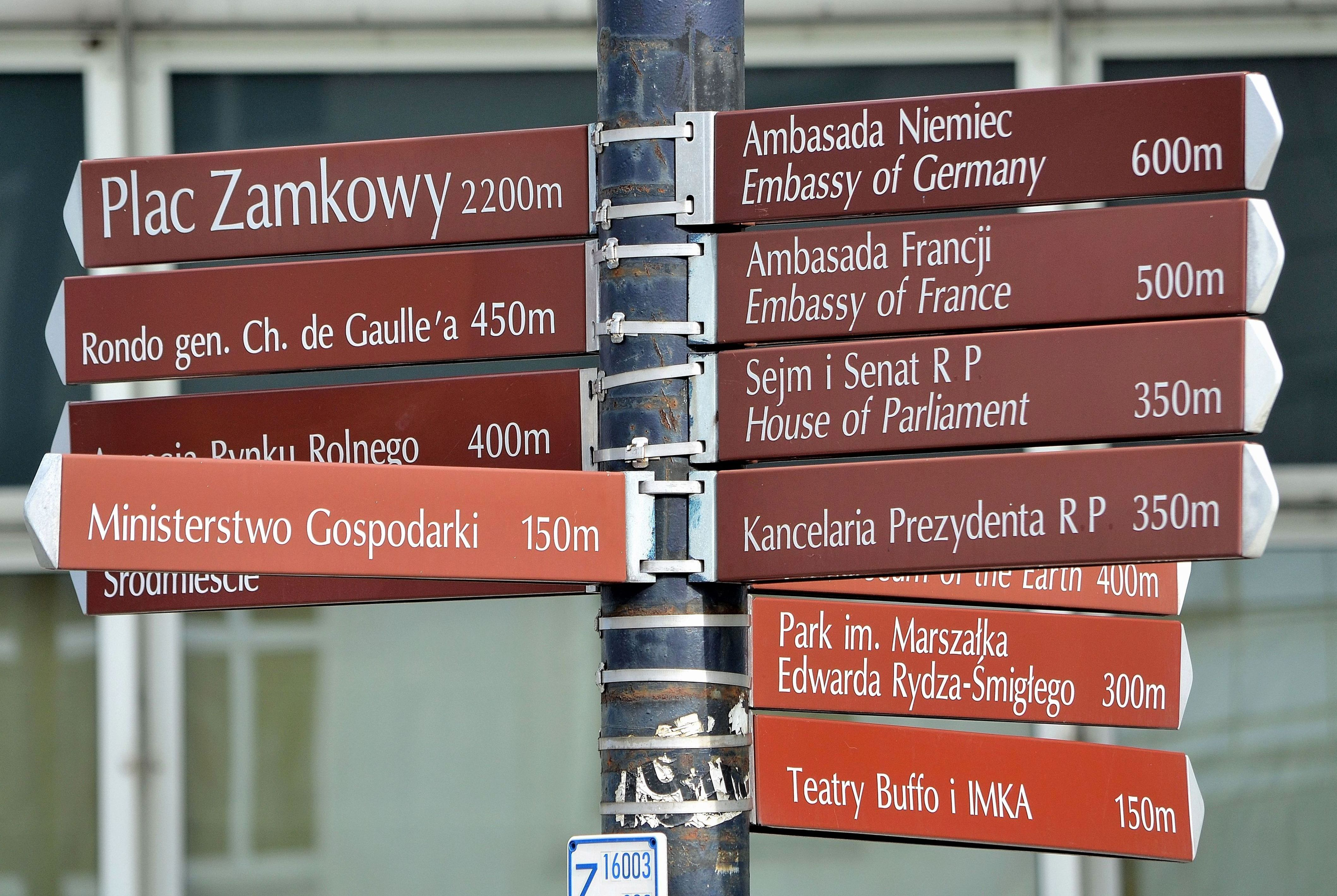 MSI (City Information System) fingerpost in the Three Crosses Square near Wiejska Street in Warsaw